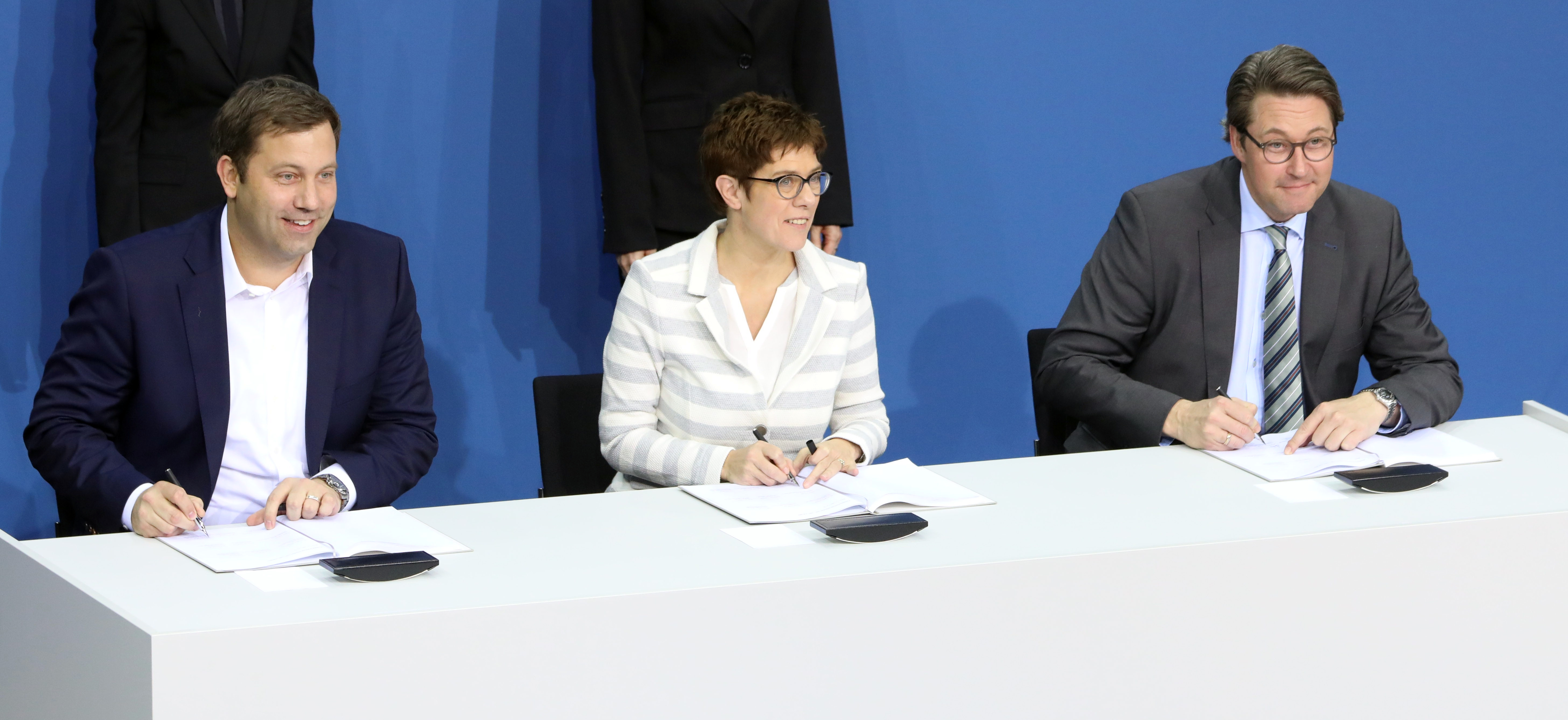 Signing of the coalition agreement for the 19th election period of the Bundestag: Lars Klingbeil, Annegret Kramp-Karrenbauer, Andreas Scheuer